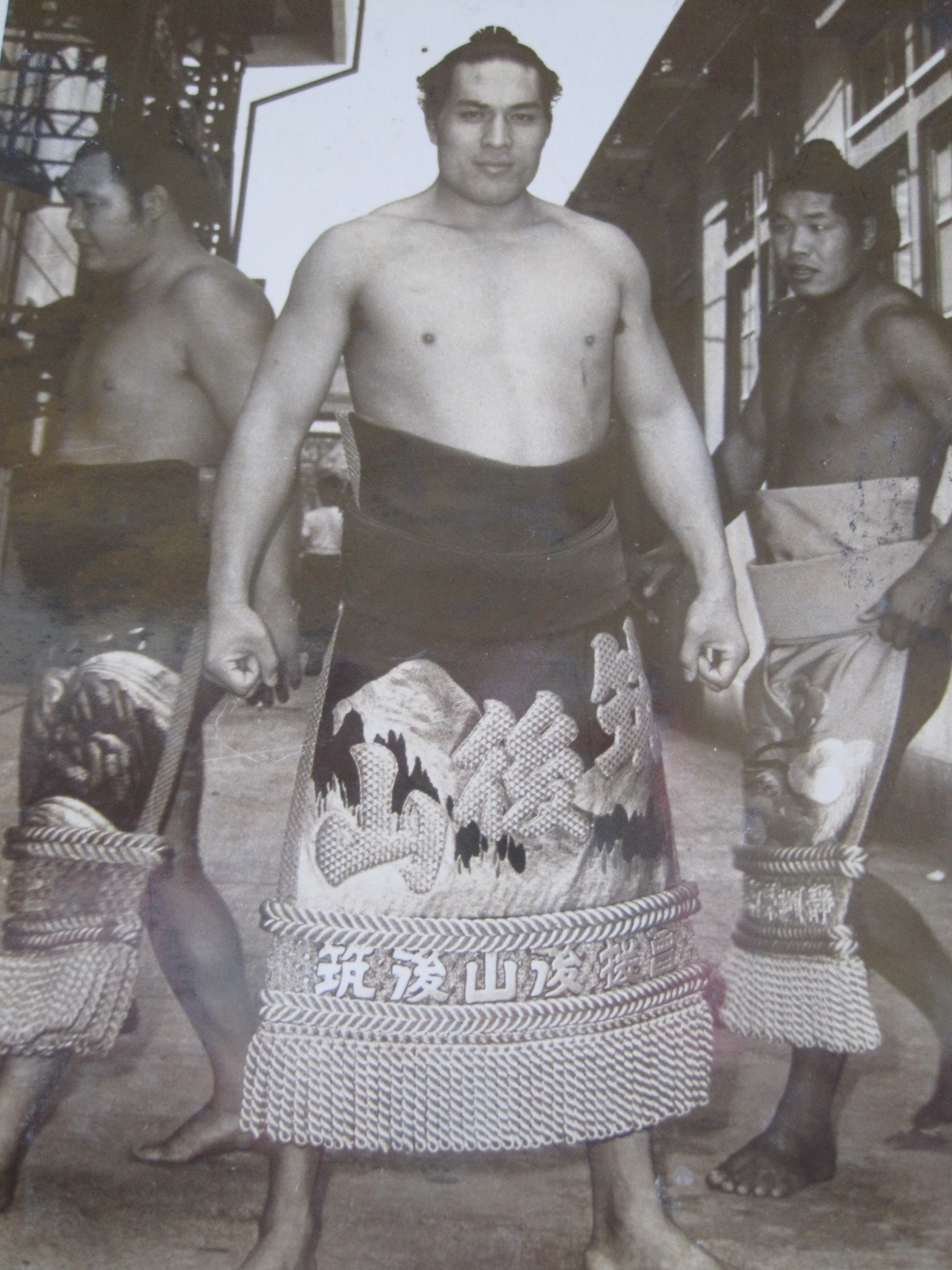 Ishibashi Kazumasa